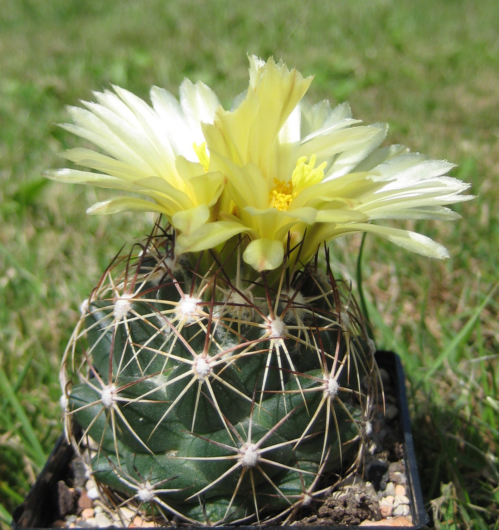 Coryphantha vogtherriana